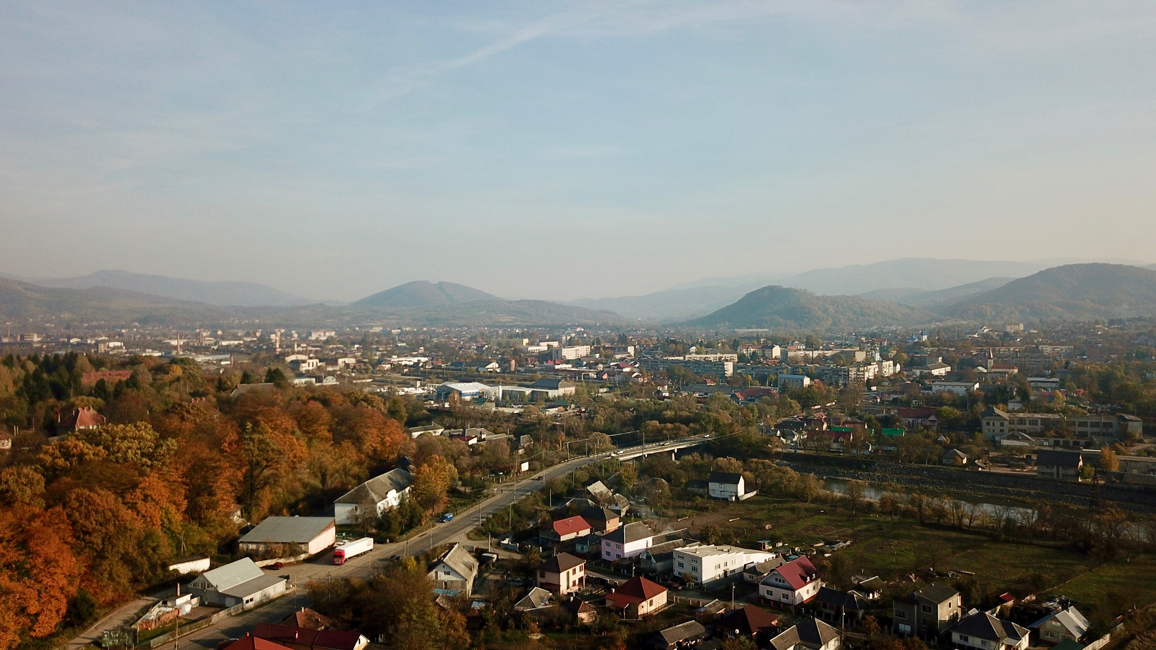 Aerial view of Svaliava (Transcarpathian Region, Ukraine)